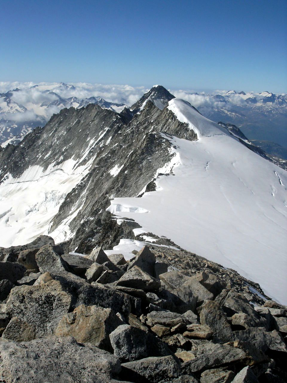 View of Galenstock from Dammastock